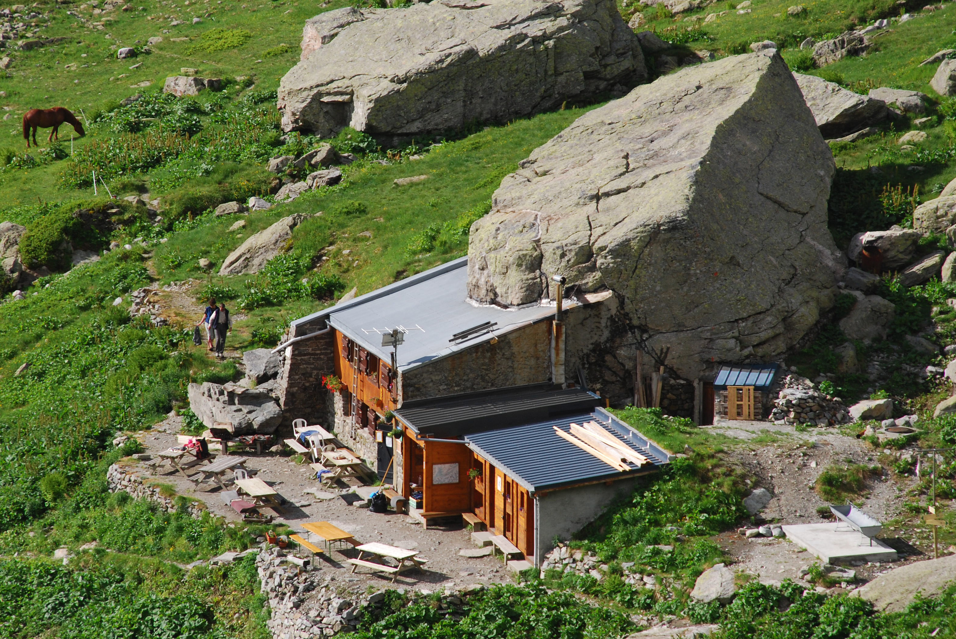 Refuge de la Pierre à Bérard (hut in the French Alps)